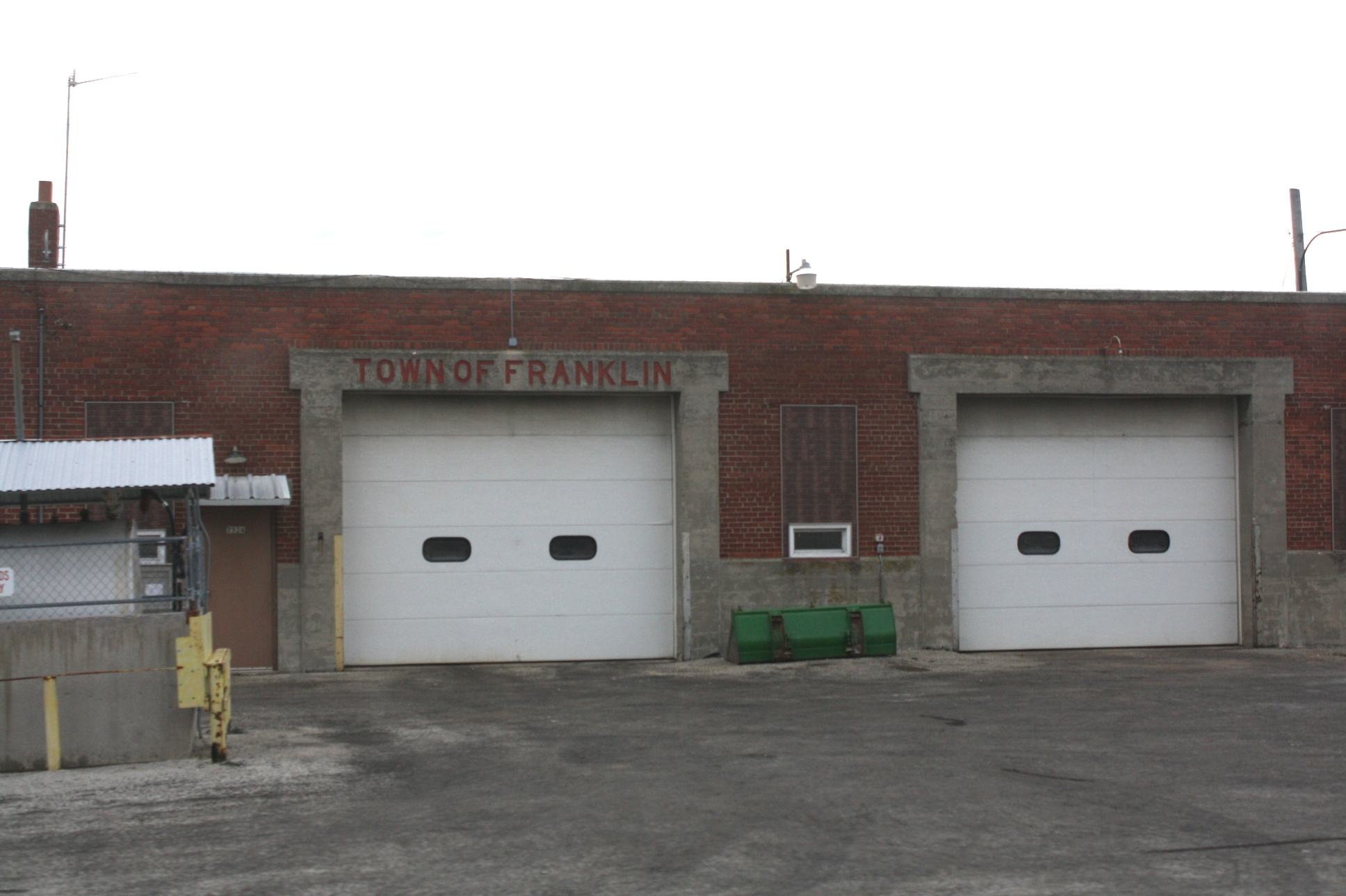 The town building for Franklin, Manitowoc County, Wisconsin.